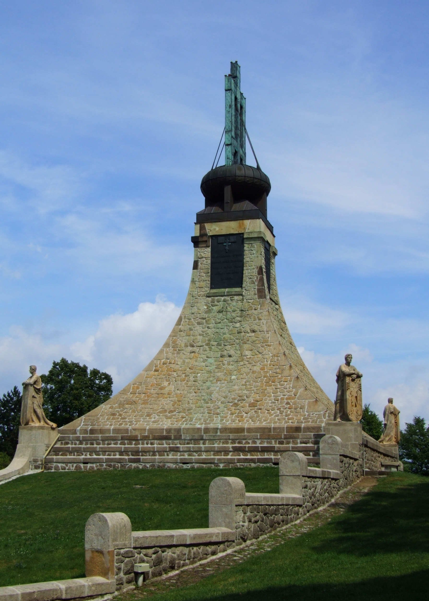 Peace Memorial (Mohyla míru) on Prace hill, Moravia